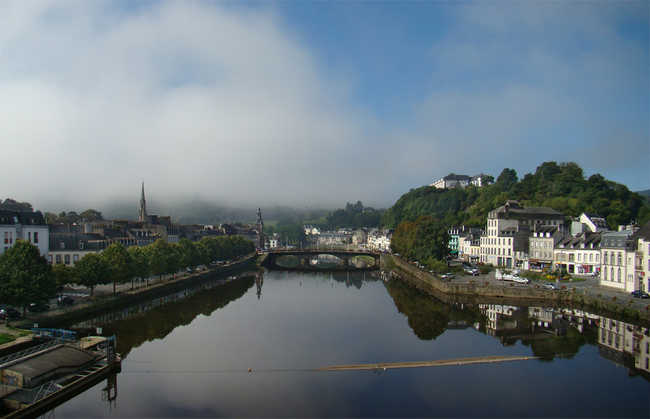 Châteaulin, Finistère, Bretagne, France. Morning fog over the Aulne river.